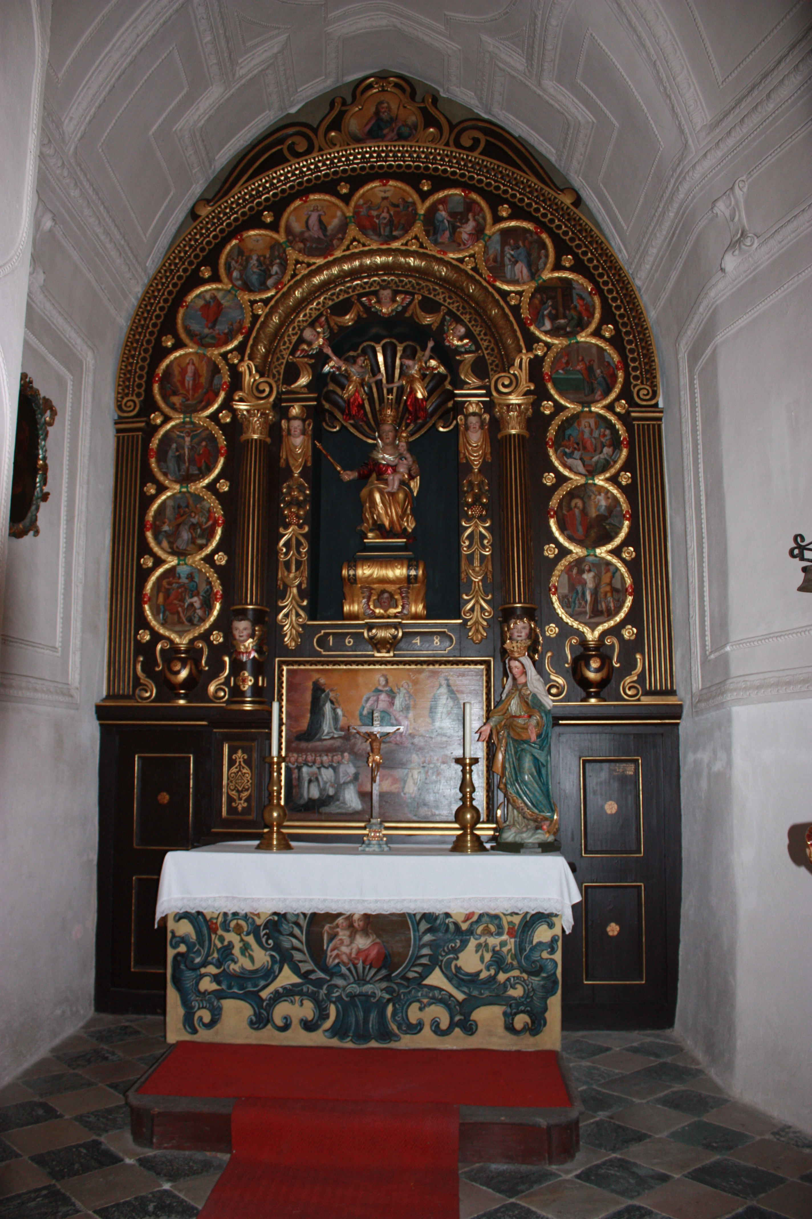 Parish church Saint Niklaus - side altar Locality:Straßburg Community:Straßburg